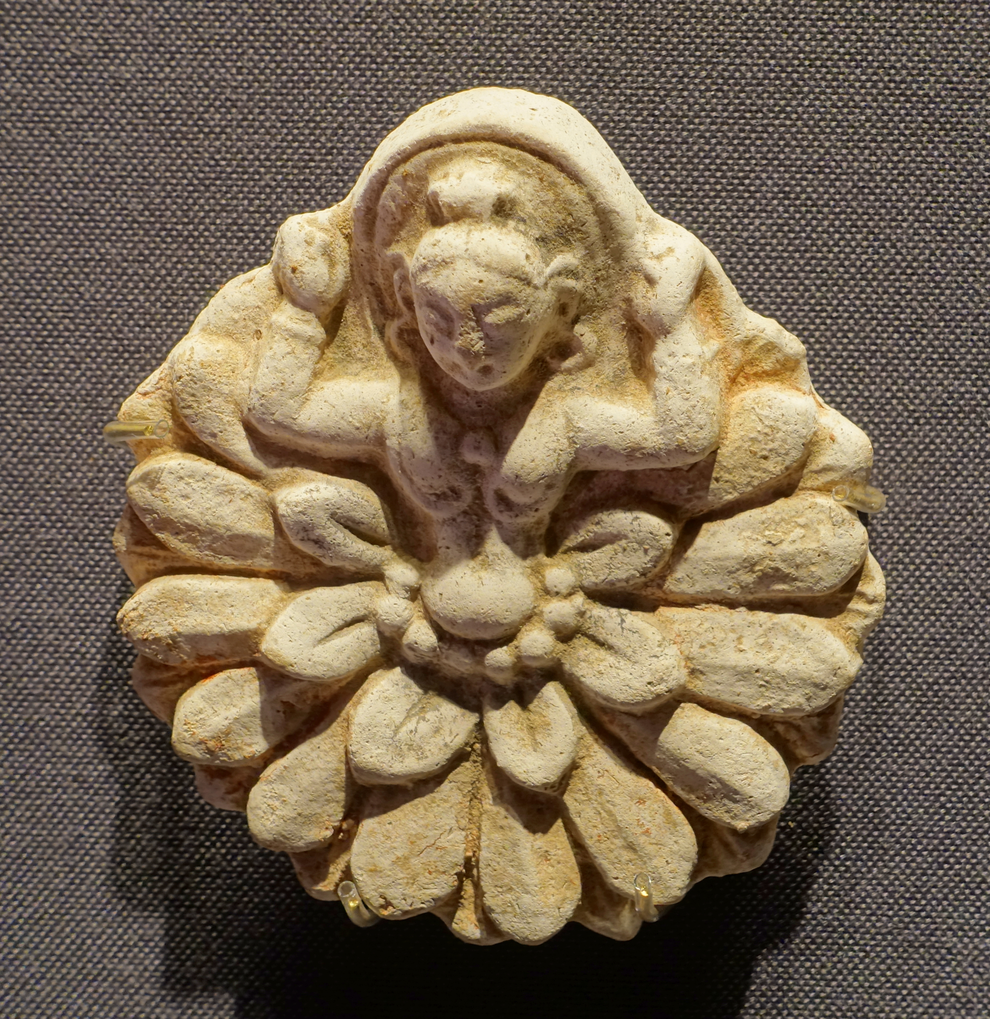 Exhibit in the Tokyo National Museum - Tokyo, Japan.